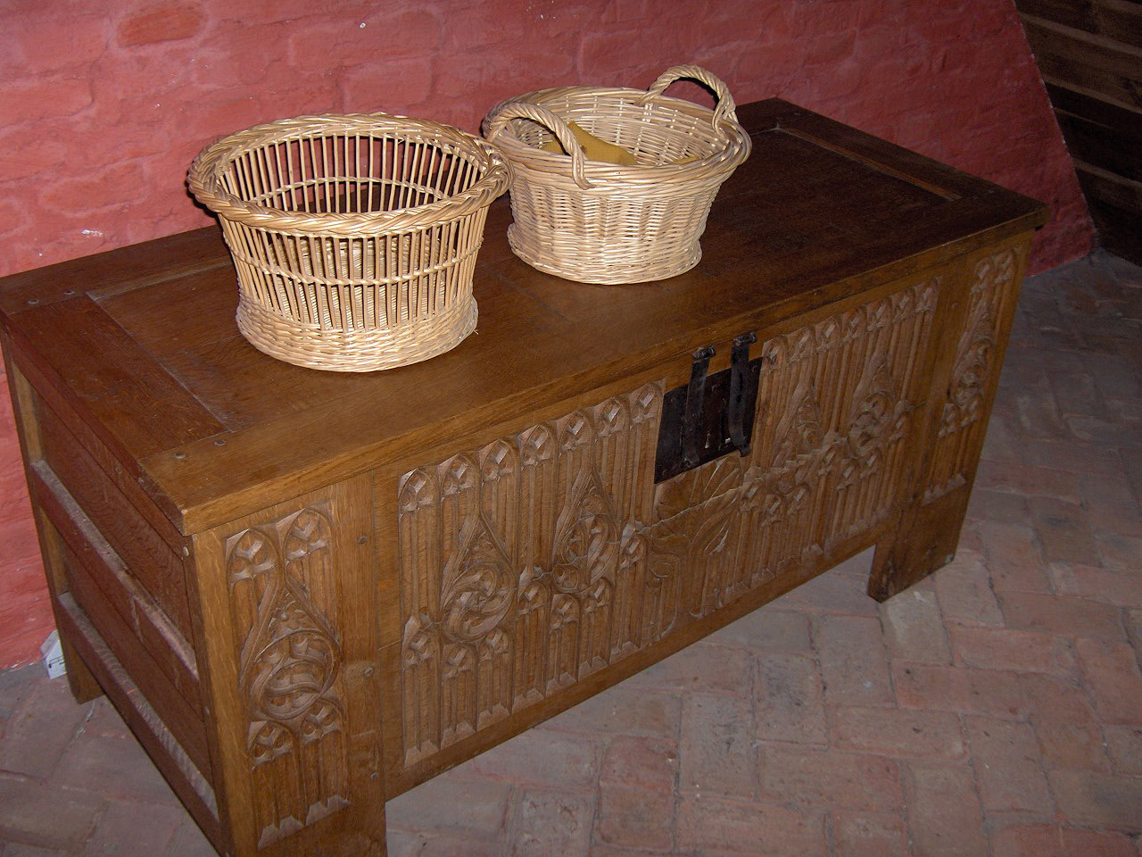 Reconstruction of a medieval trunk (15th century) with gothic arches, a tree of life and a 'fish bladder' motif, at the archeological site of Walraversijde, near Oostende, Belgium